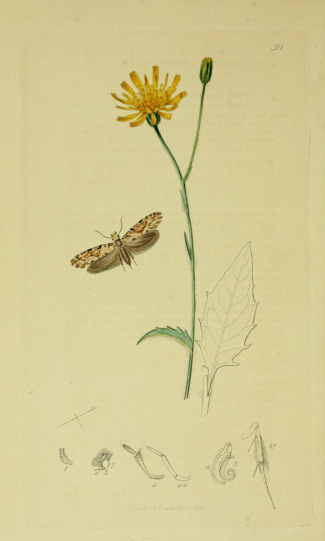 An illustration from British Entomology by John Curtis. Lepidoptera: Nemaxera corticella or Nemaxera betulinella (Fabricius 1787)(Bark Clothes Moth, Gold-speckled Clothes-moth).